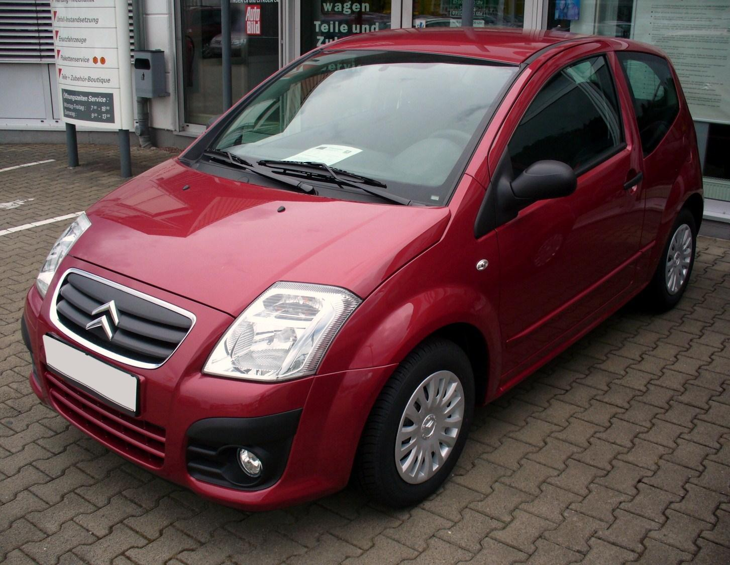 Citroen C2 Facelift